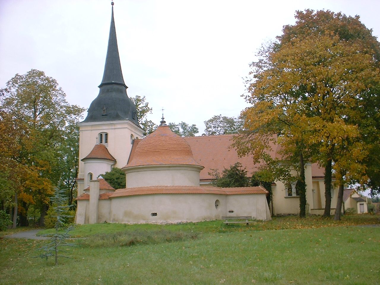 Borsig's graveyard behind the church in Groß Behnitz in Brandenburg, Germany